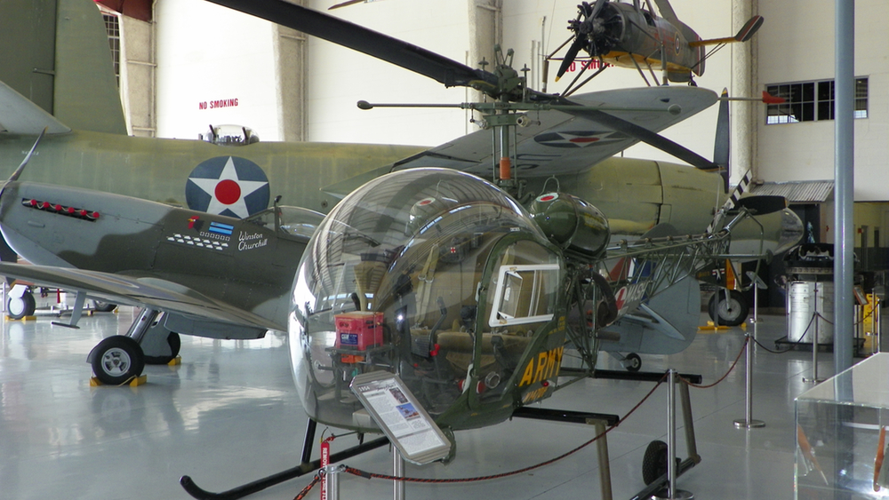 Aircraft belonging to Fantasy of Flight in Polk City, FL.